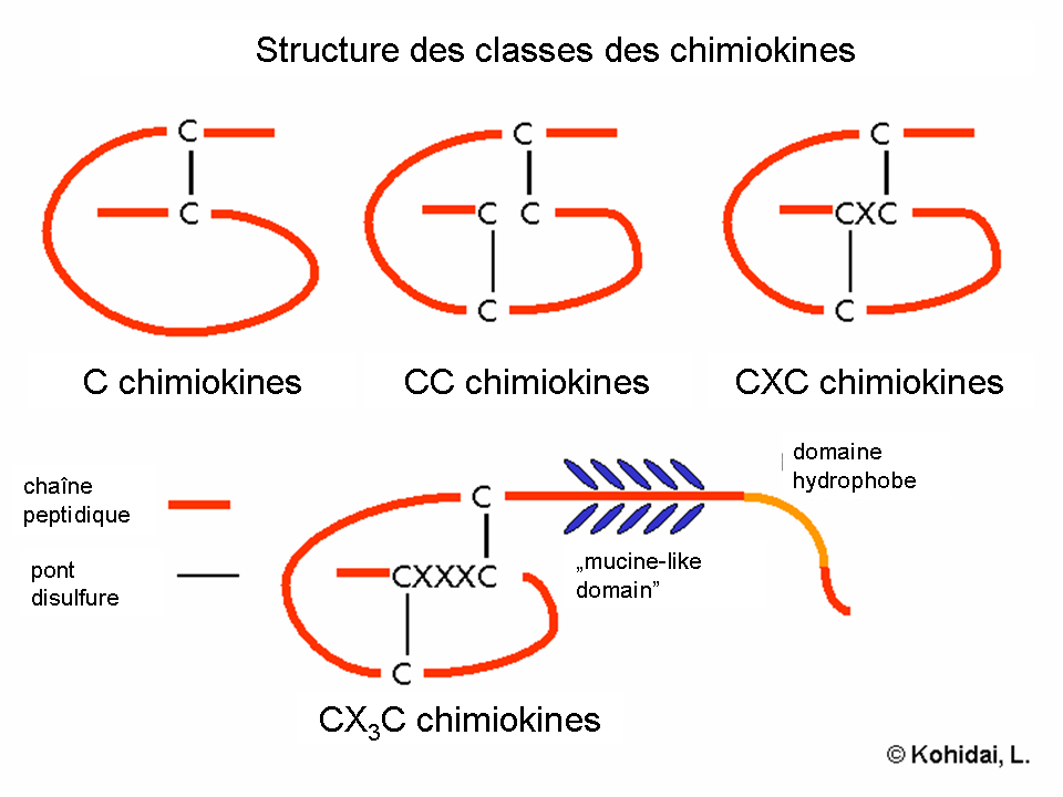 Classes of chemokines